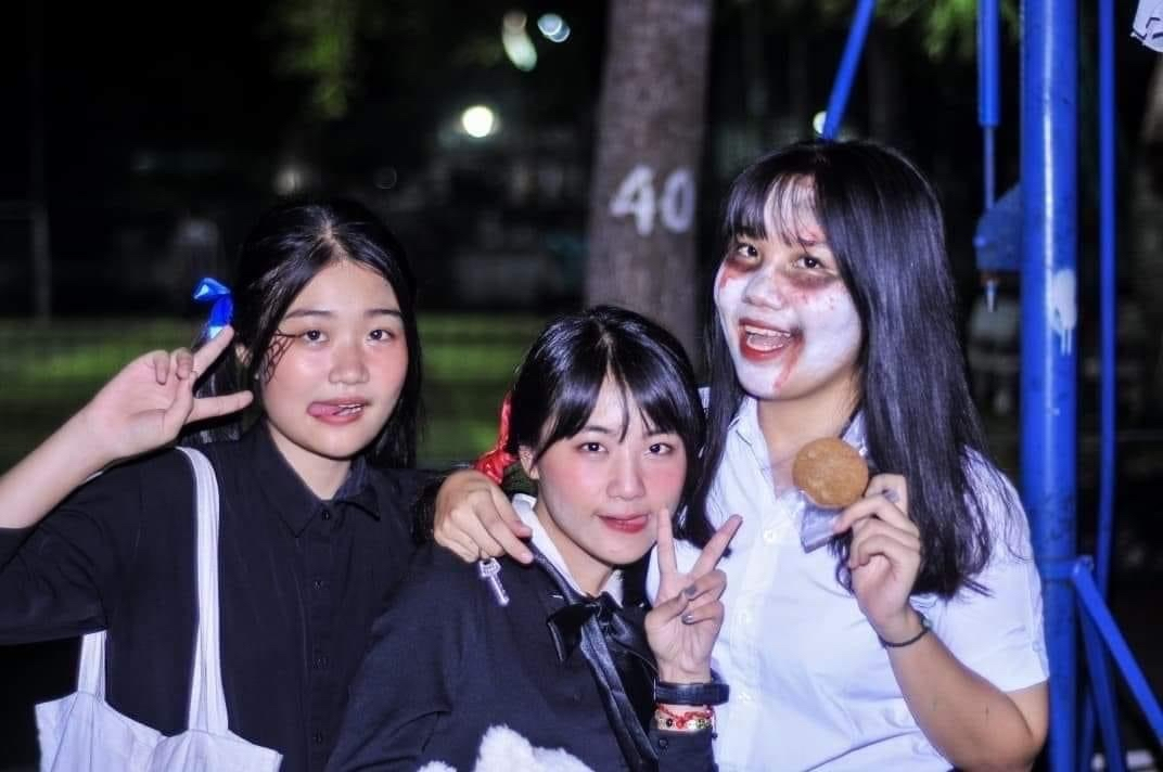 Vietnamese students at Nguyen Huu Cau High School in Halloween